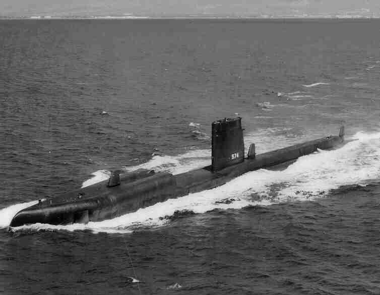 USS_Grayback; Grayback (SSG-574), underway, circa 1960, place unknown. US Navy photo, courtesy of George M. Arnold.